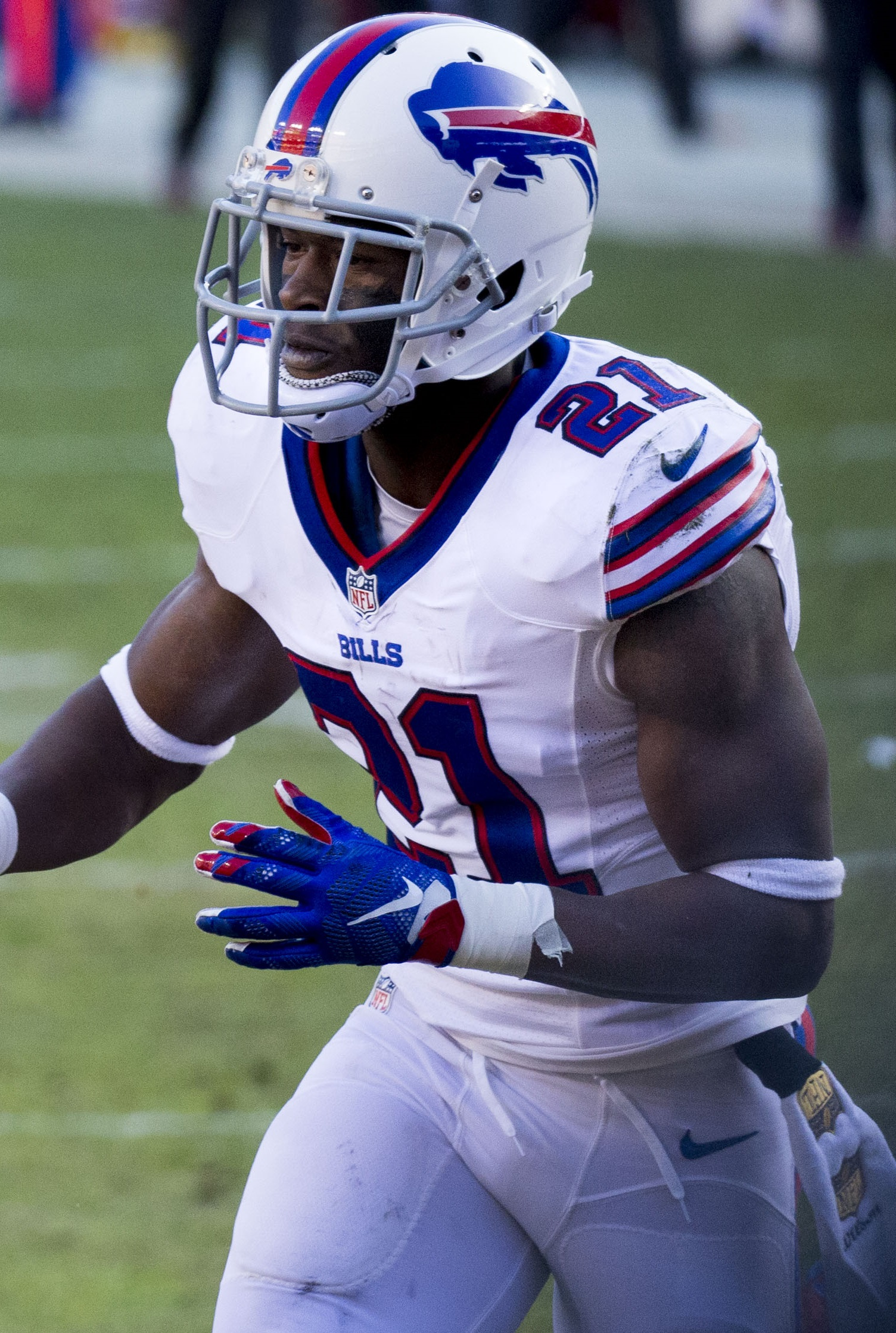 Bills at Redskins 12/20/15